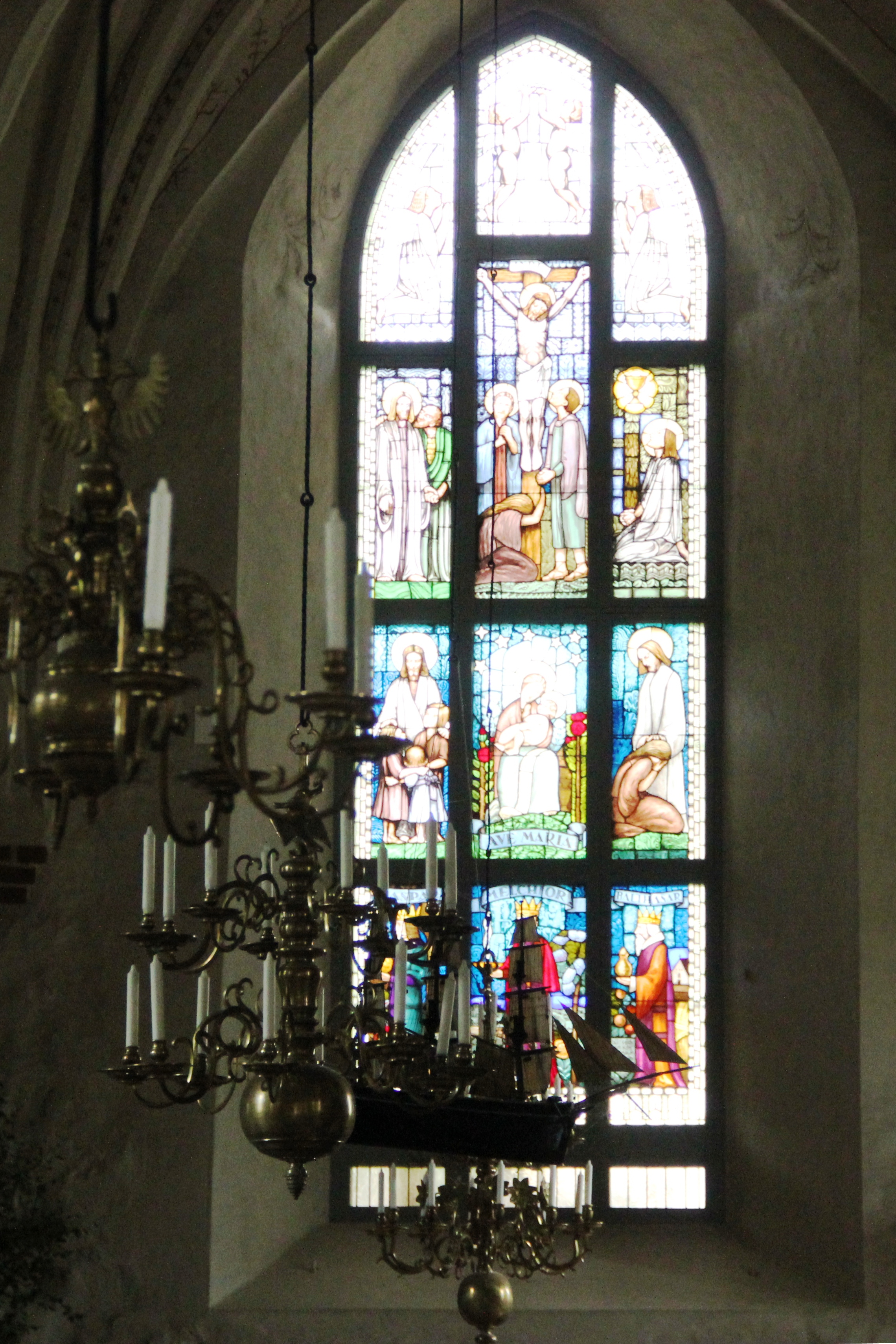 Stained glass window by Armas Lindgren in Kimito Church. 1922